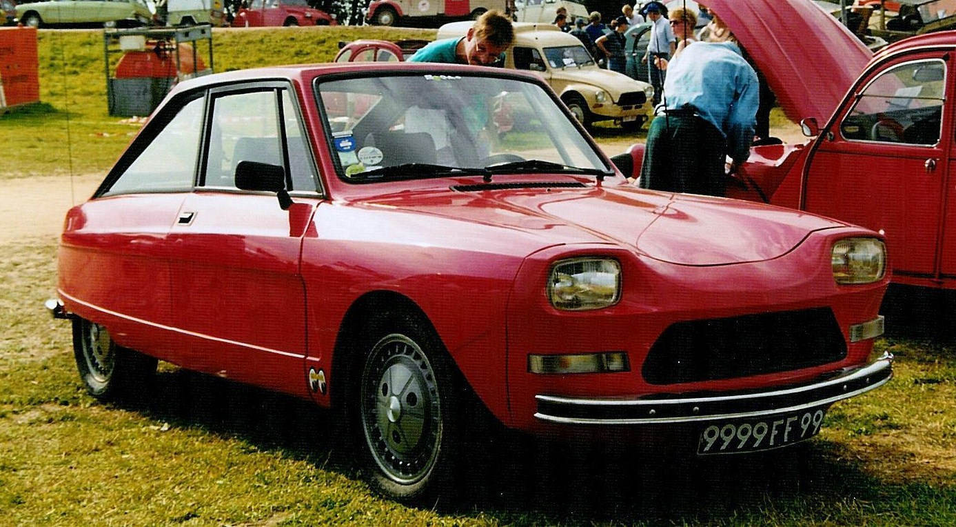 personnal picture of M35. This is not the original color